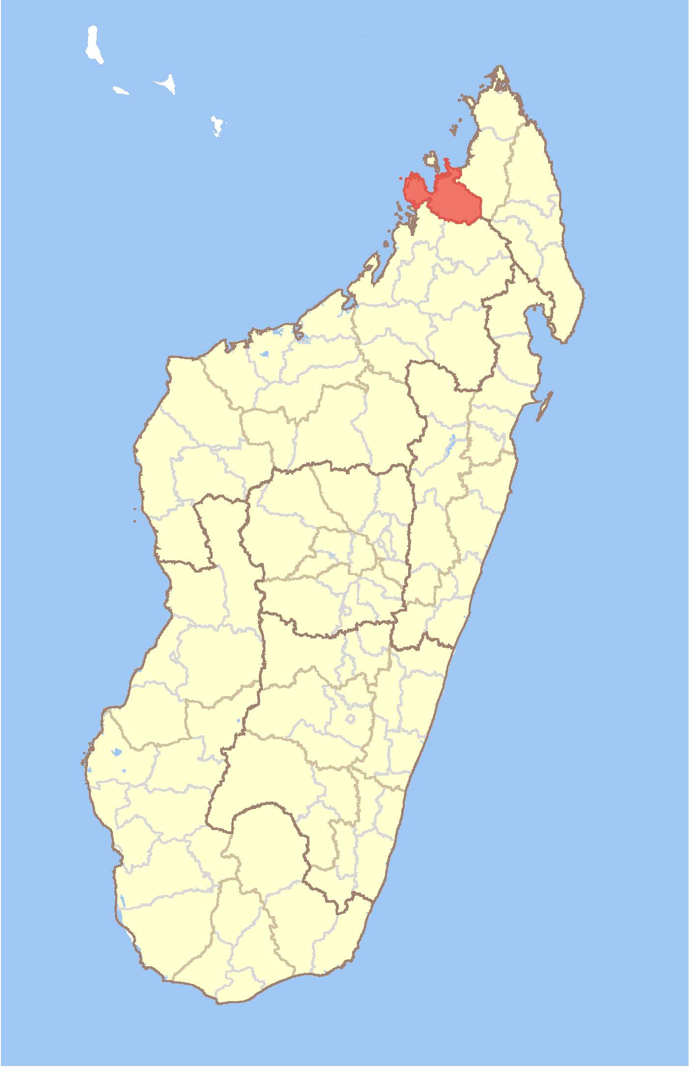 Map of Madagascar with Ambanja District highlighted.